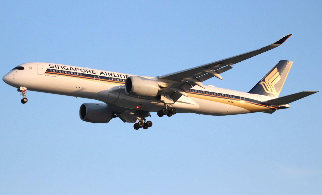 Picture of an Airbus A350-900 for Singapore Airlines.